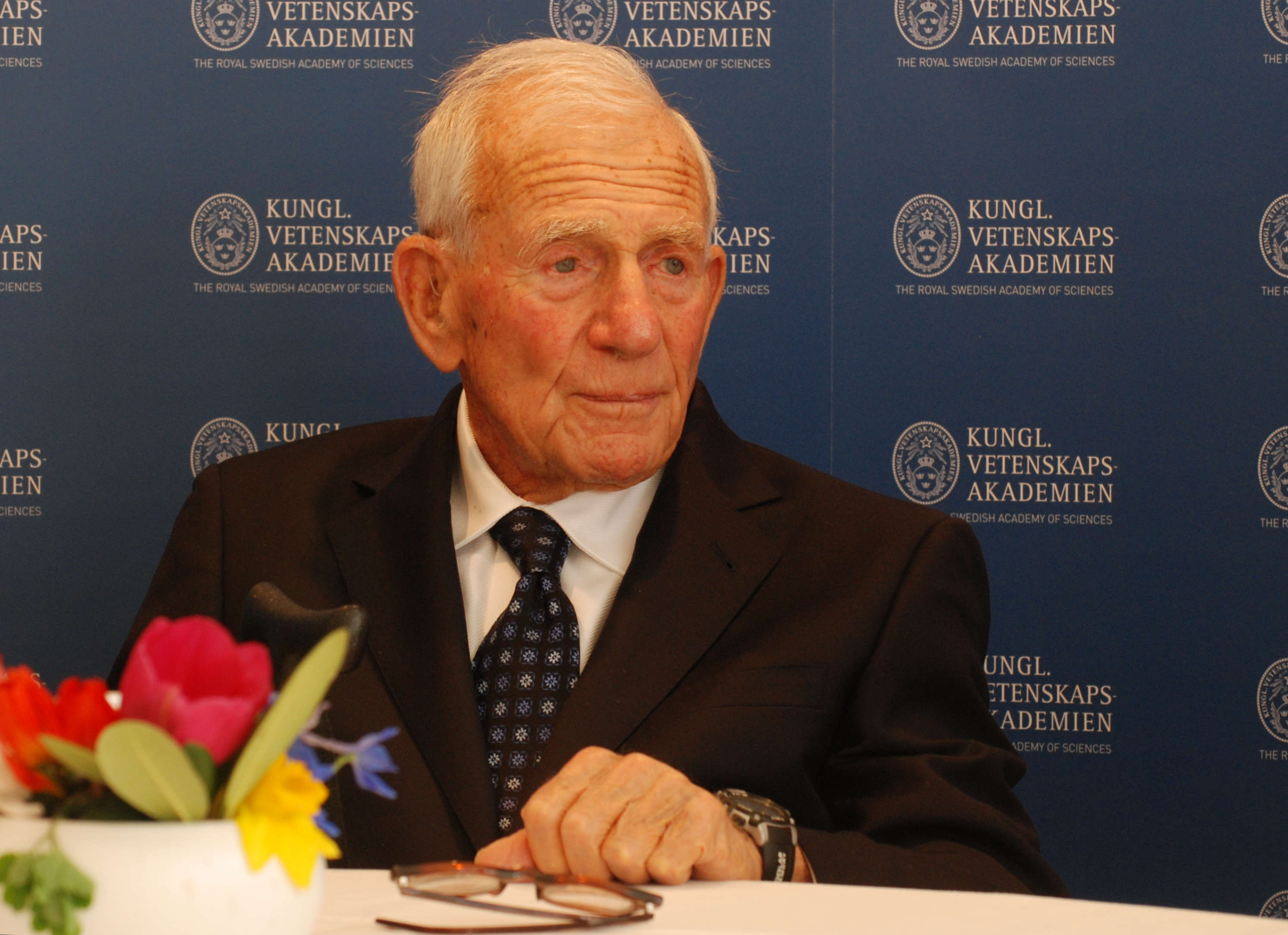 Crafoord Prize 2010: press conference with the laureate Walter Munk